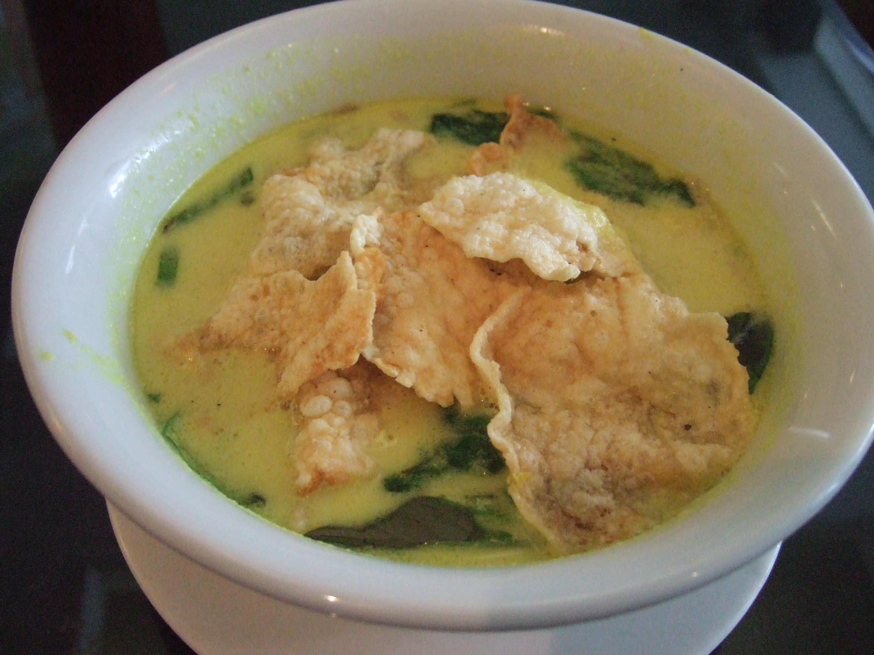 Laksa, Jakarta, Indonesia